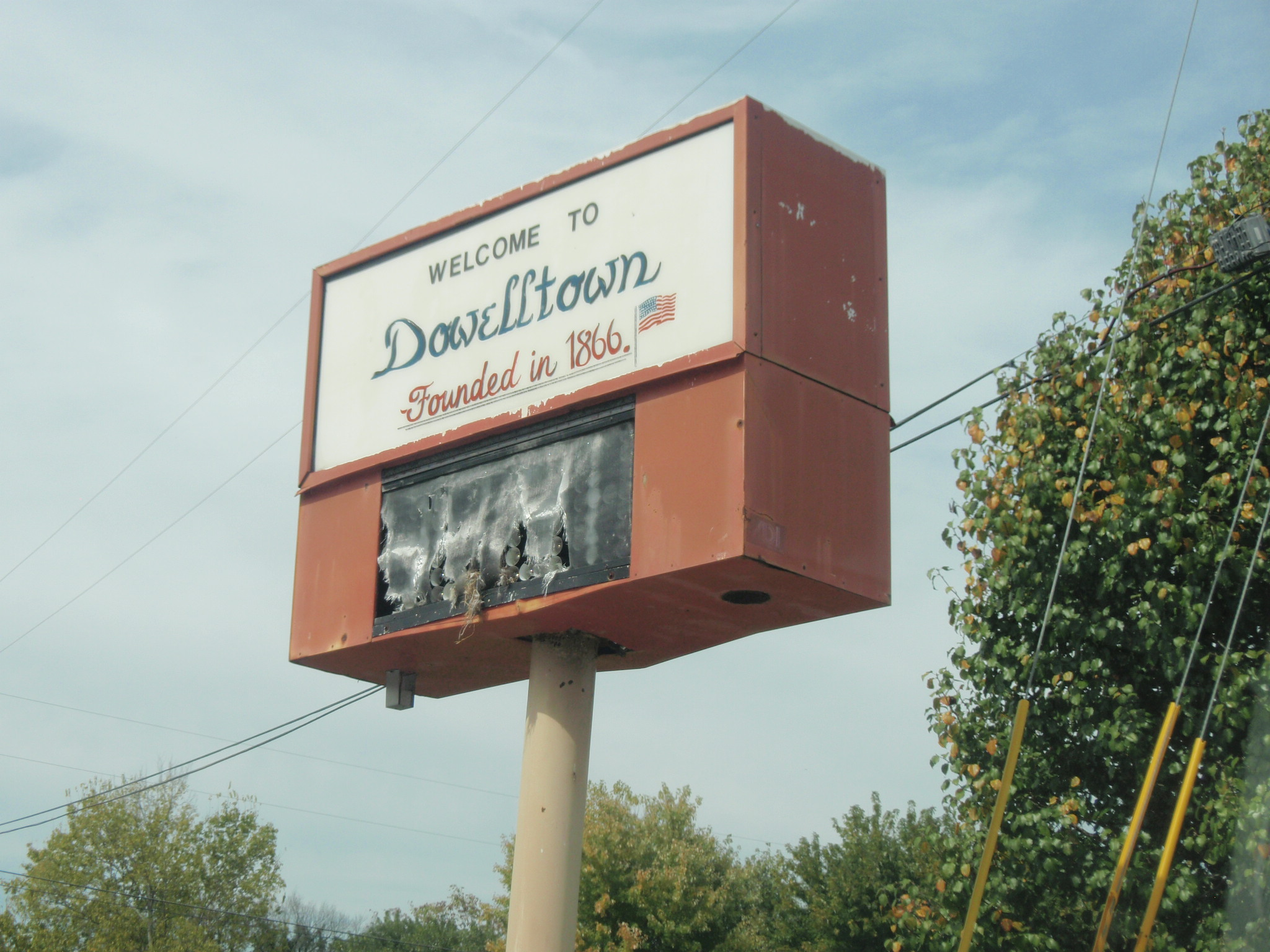 Dowelltown, Tennessee sign taken October 2011